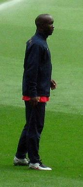 French football (soccer) player Lassana Diarra